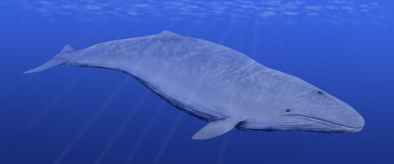 Cetotherium furlongi, a baleen whale from the mid-Late Miocene of Europe, Russia and North America, digital